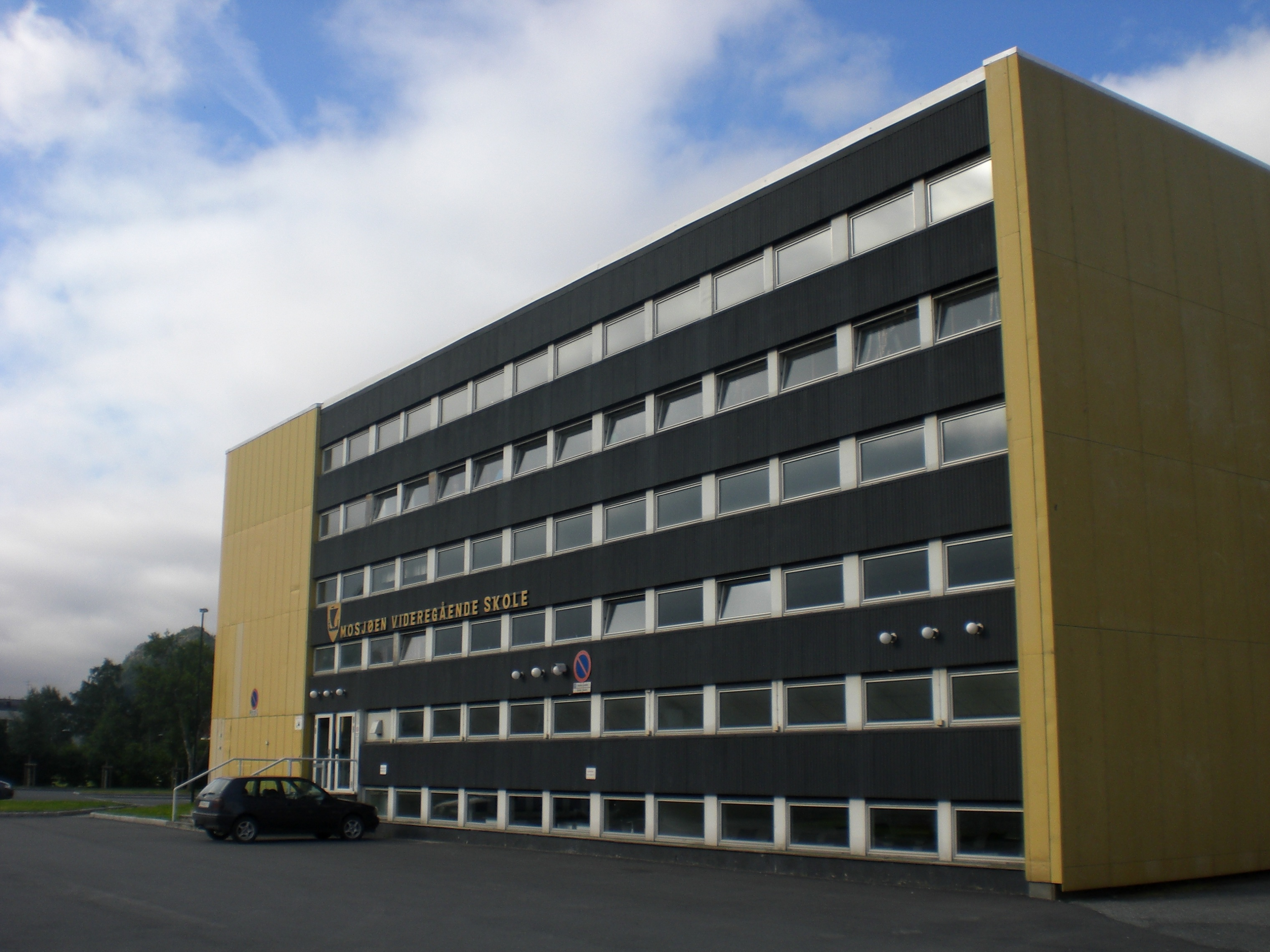 Mosjøen High School, Mosjøen in Norway.